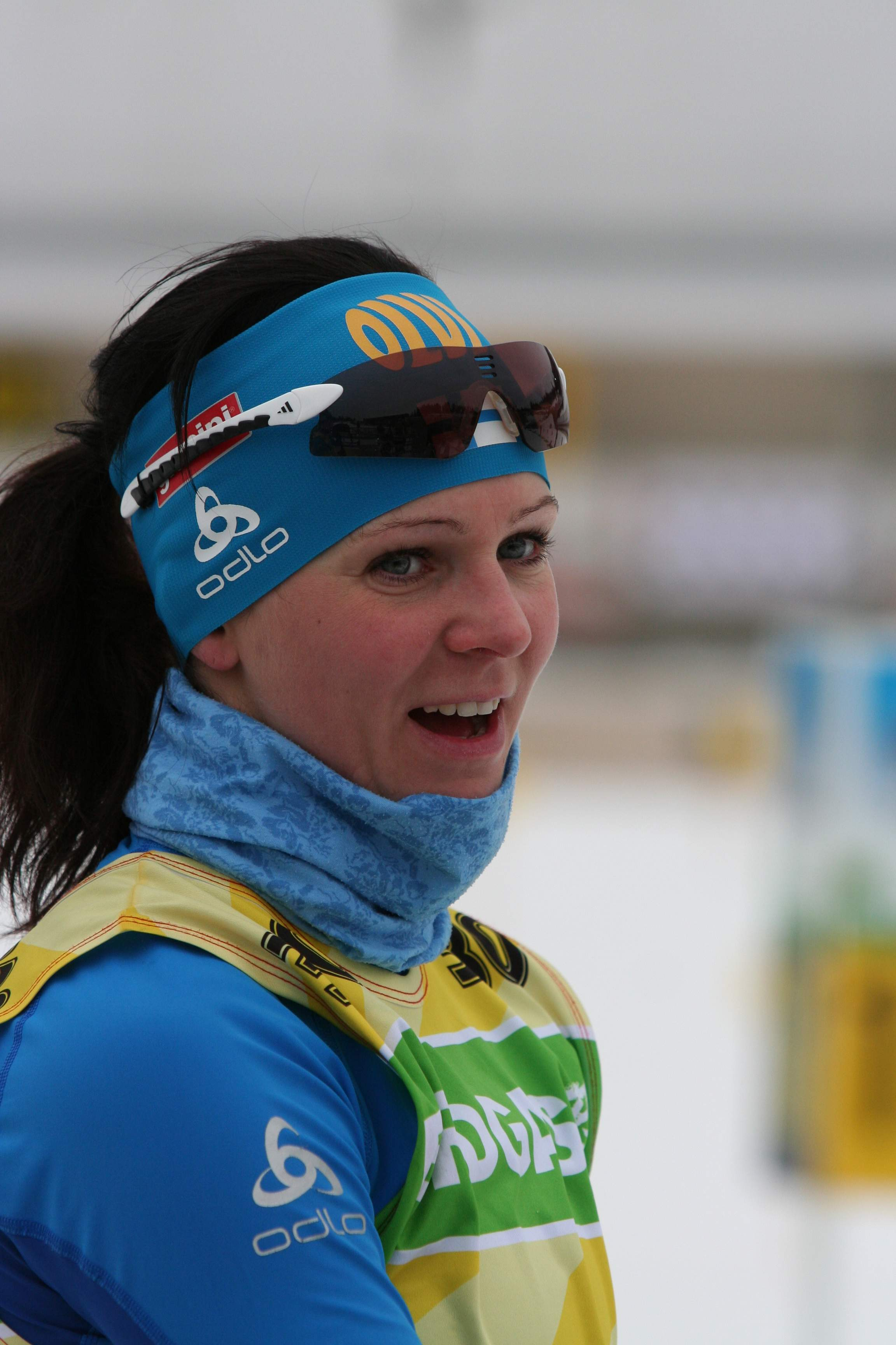 Teija Lehtimäki during trainings at Holmenkommen in March 2010